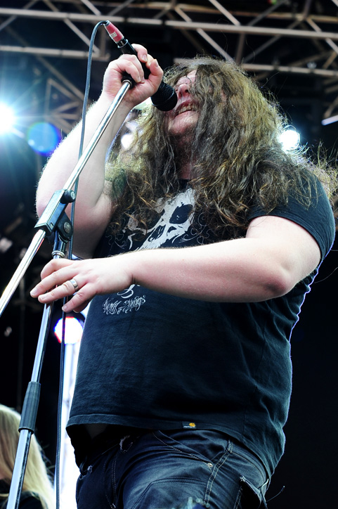 No Sleep Til Festival 2010